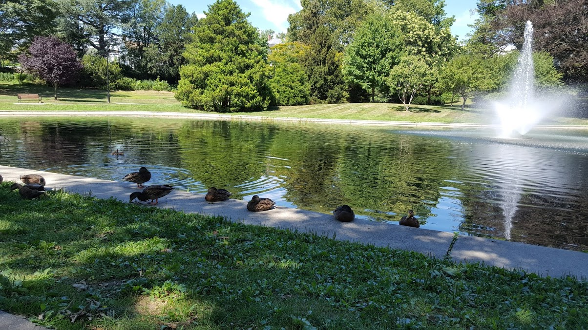 Fish Pond contained with the sprawling 14+ acres of Wilcox Park